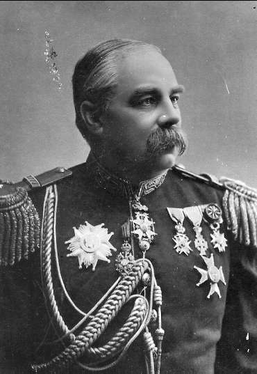 Photograph by Lieutenant General Knut Axel Ryding (1831–1897).